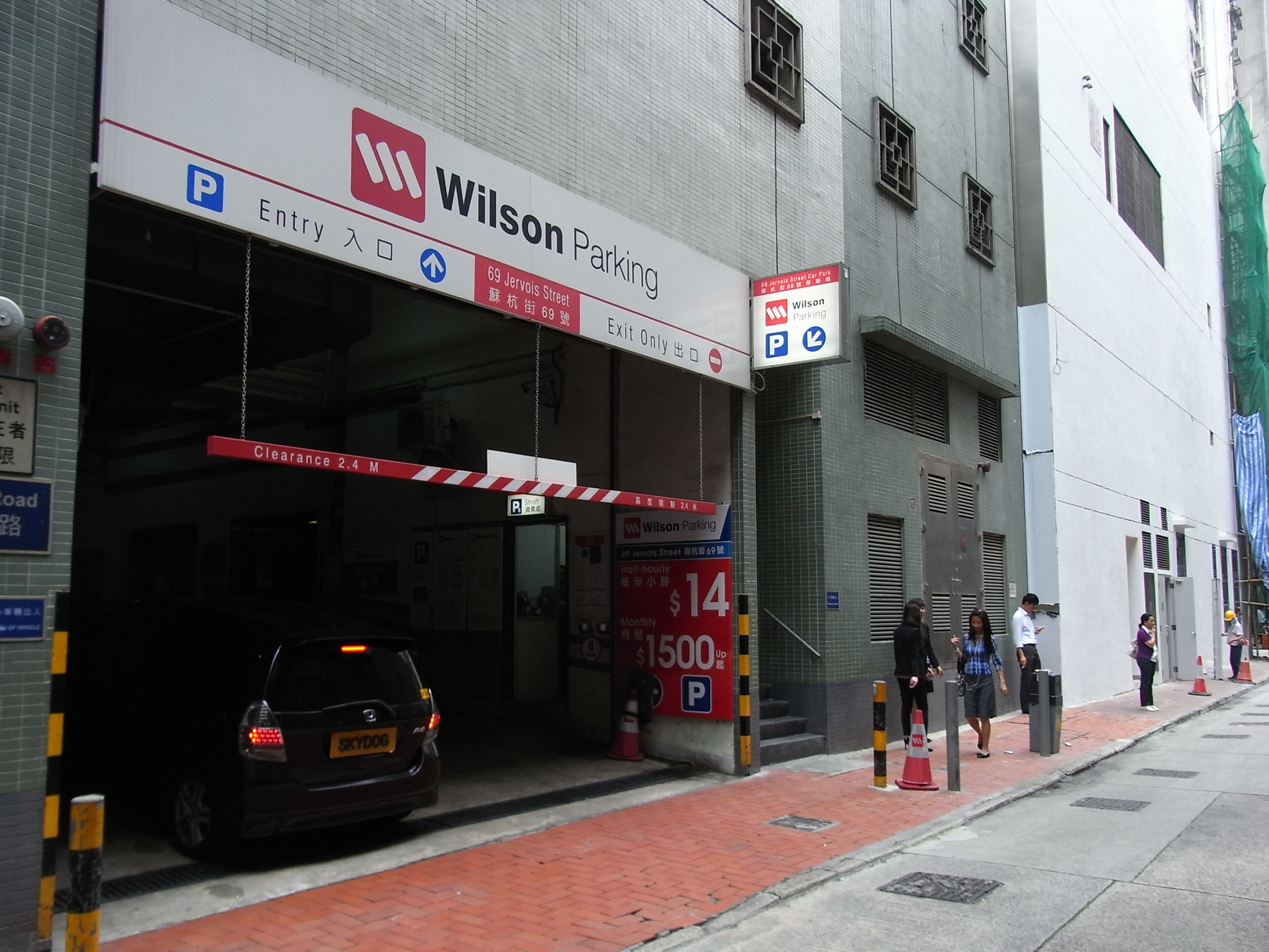 Burd Street Wilson Parking entrance, Sheung Wan, Hong Kong